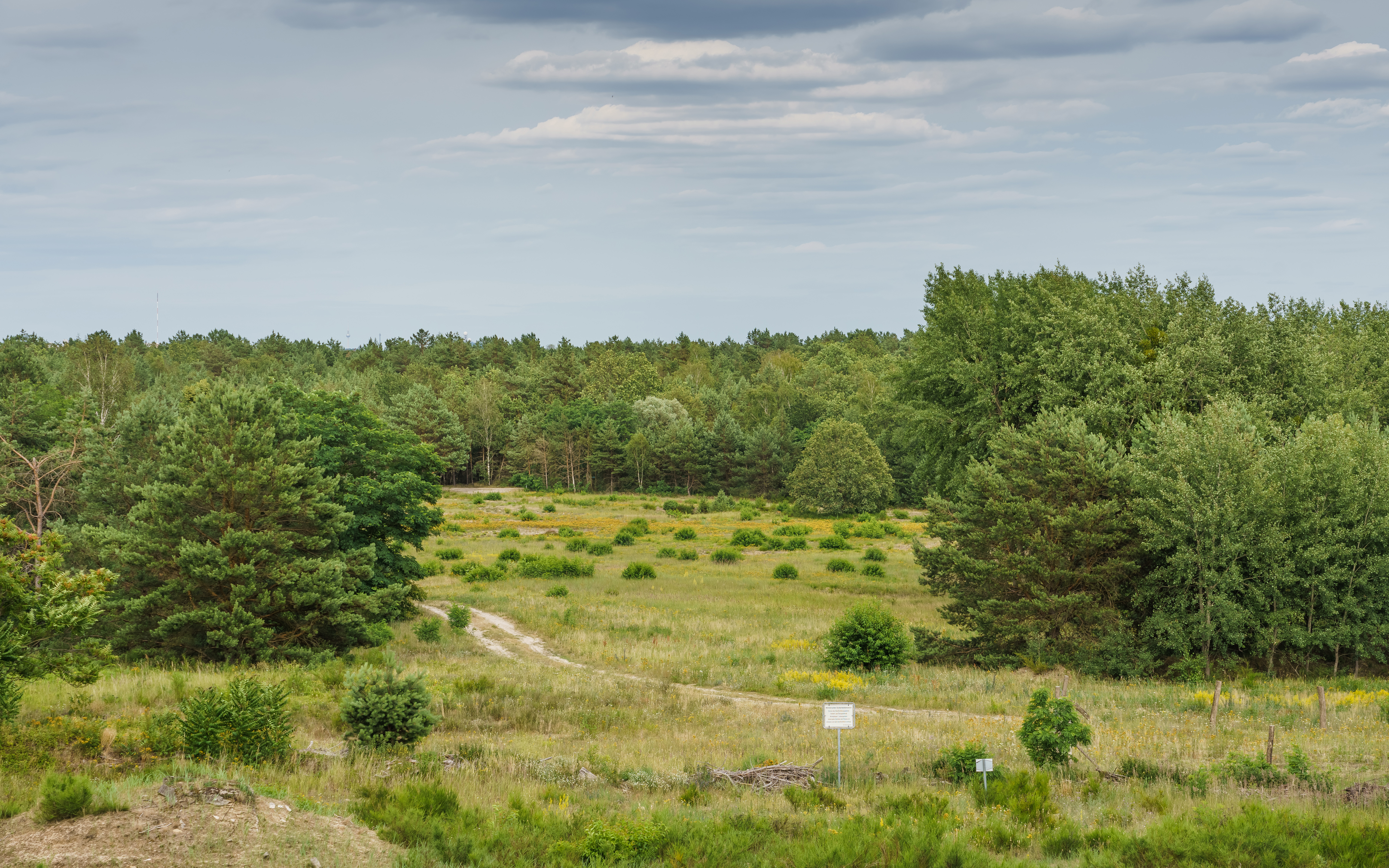 Protected area «Döberitzer Heide» near Potsdam, Germany